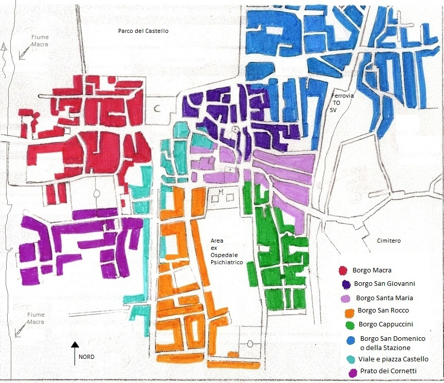 Racconigi Neighbours Map